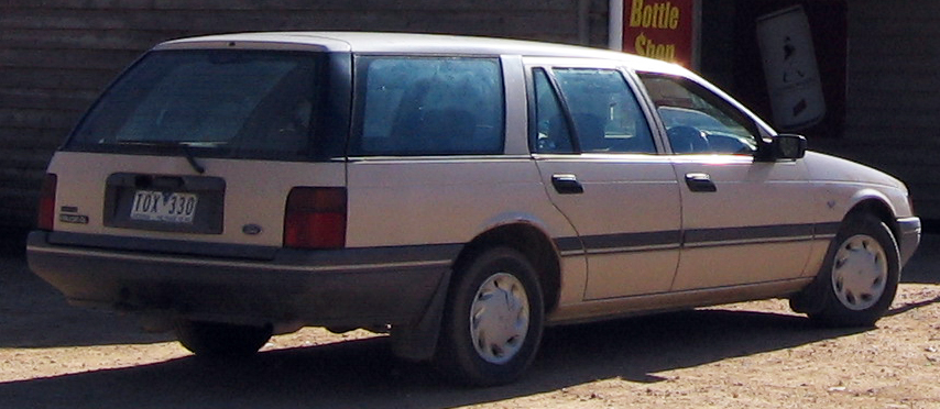 1990–1991 Ford EA II Falcon GL station wagon, photographed in Bundalong, Victoria, Australia.